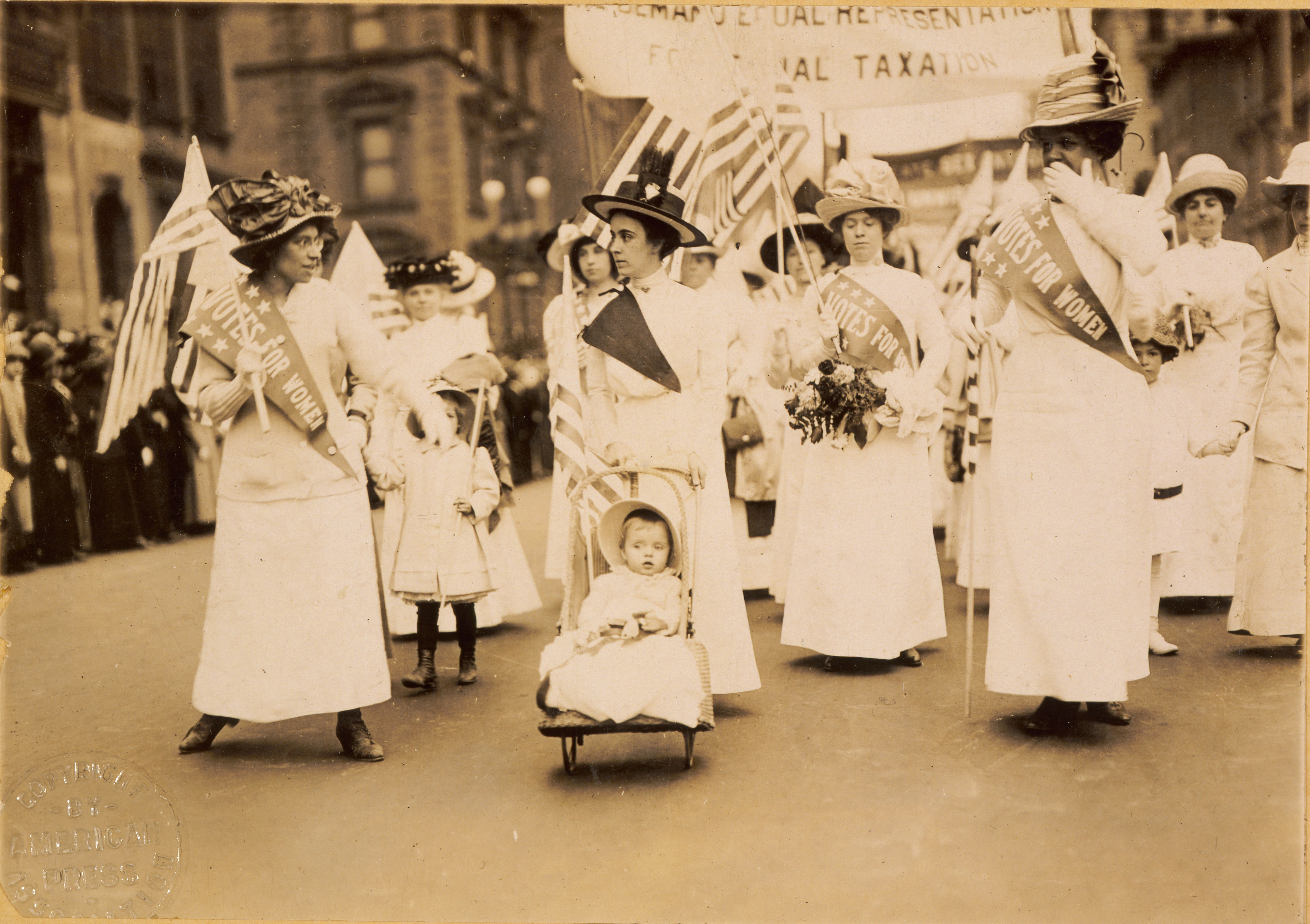 Title: Youngest parader in New York City suffragist parade Abstract/medium: 1 photographic print.